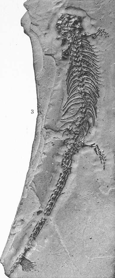 3. - Sauravus cambrayi nov. sp. of the Permian of Télots, near Autun. - Natural size.